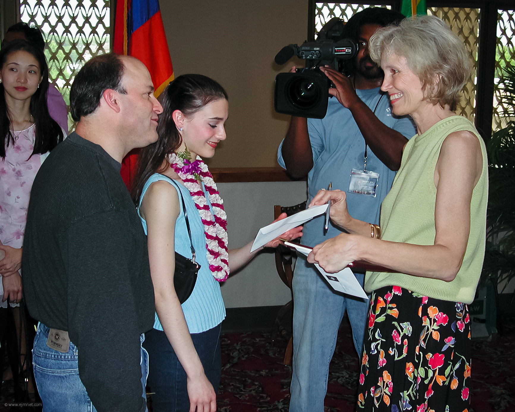 Seventeen year old Sarah Lane receiving her prize money from winning a silver medal in the junior division at the International Ballet Competition in Jackson, Mississippi in 2002.